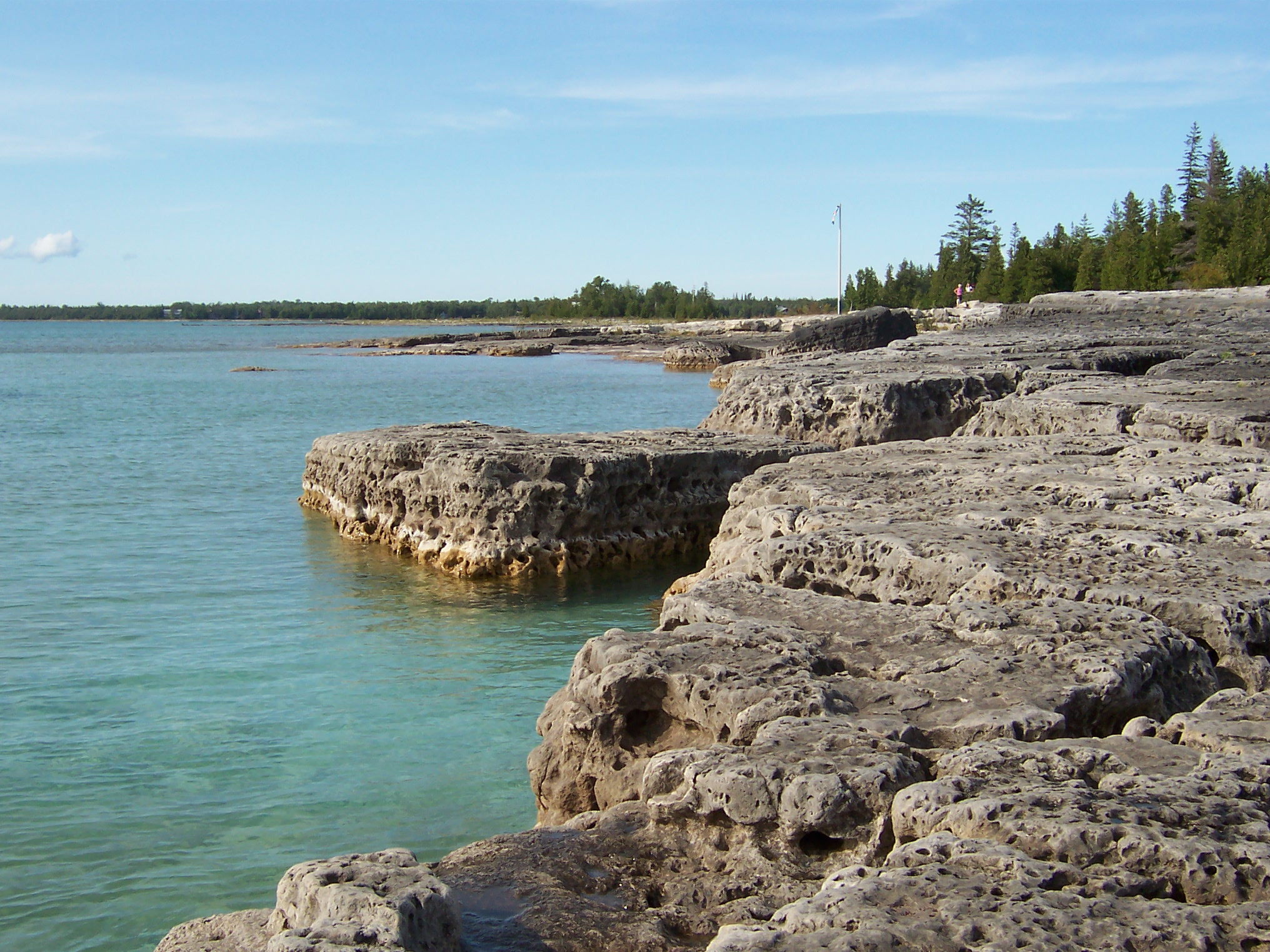 A shot of a rock beach (called Whiskey Point) in Pike Bay, Ontario (Northern Bruce Peninsula)